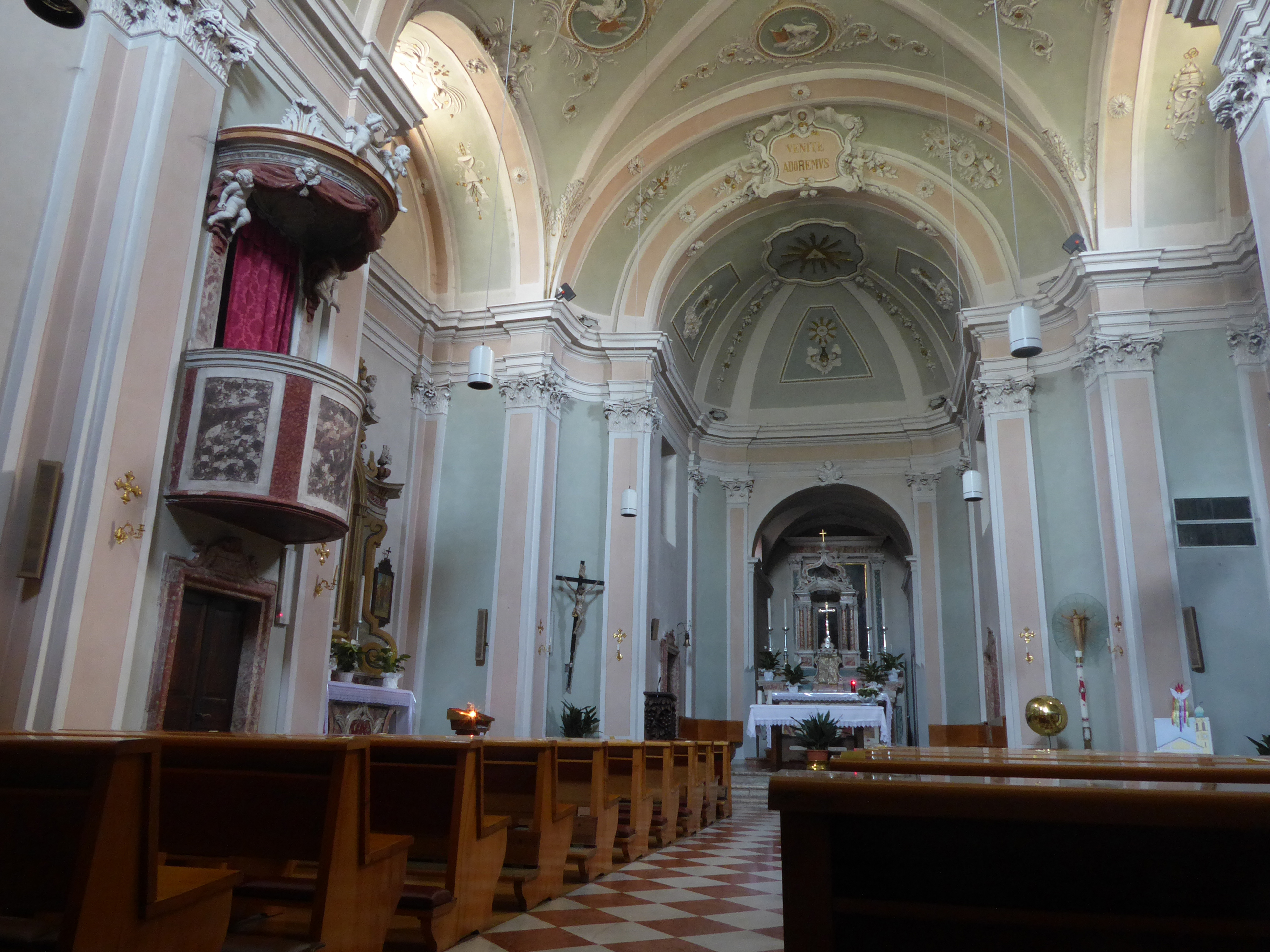 Ravina (Trento, Italy) - Translation of St Marina church - Interior